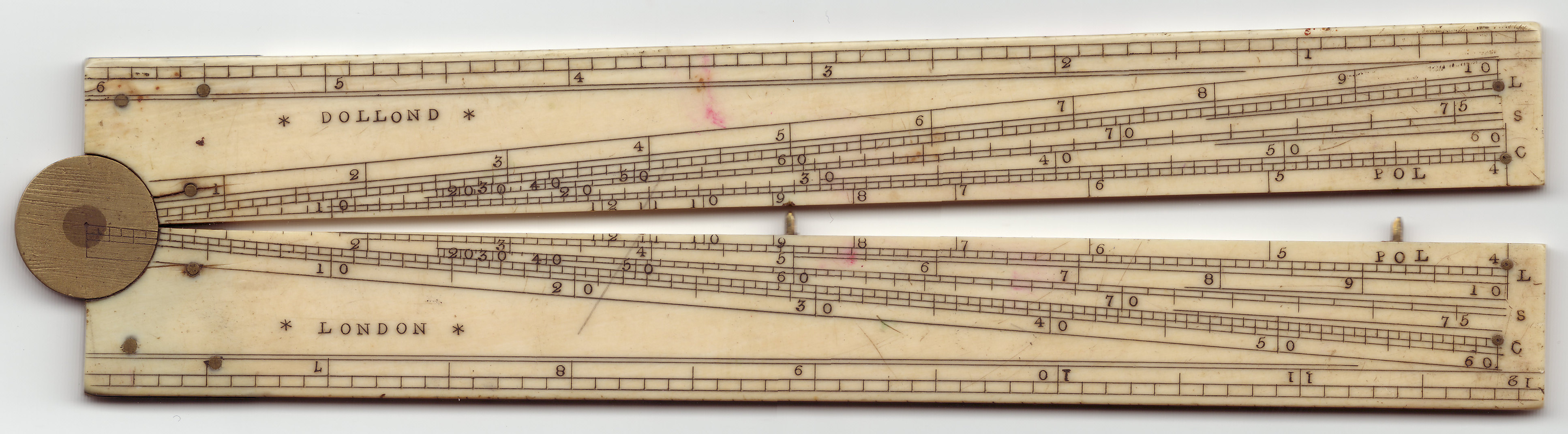 sector (instrument), showing the line of lines (L, 0-10), an unknown scale (S,20-75), the line of chords (C, 0-60) and the line of polygons (POLY, 12-4). A scale of 12 inches is also present. The otherside of this instrument is [File:Compas de proportion 2.jpg]